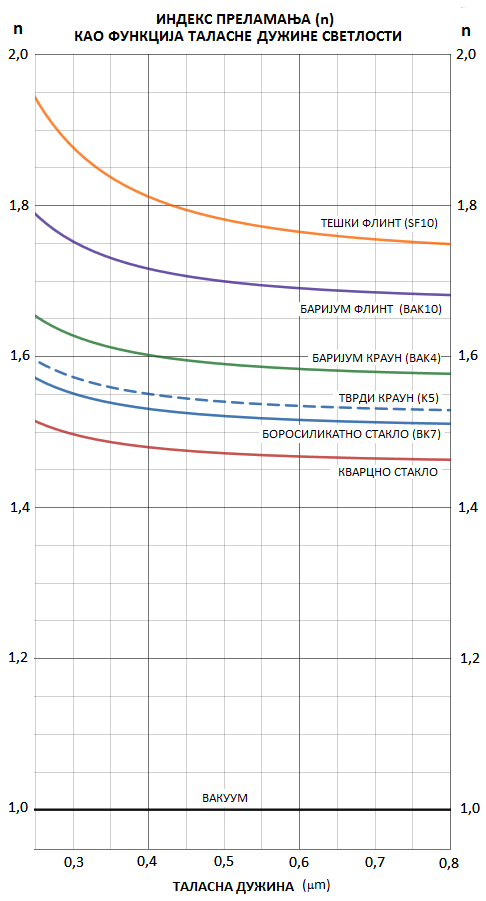 ИНДЕКС ПРЕЛАМАЊА